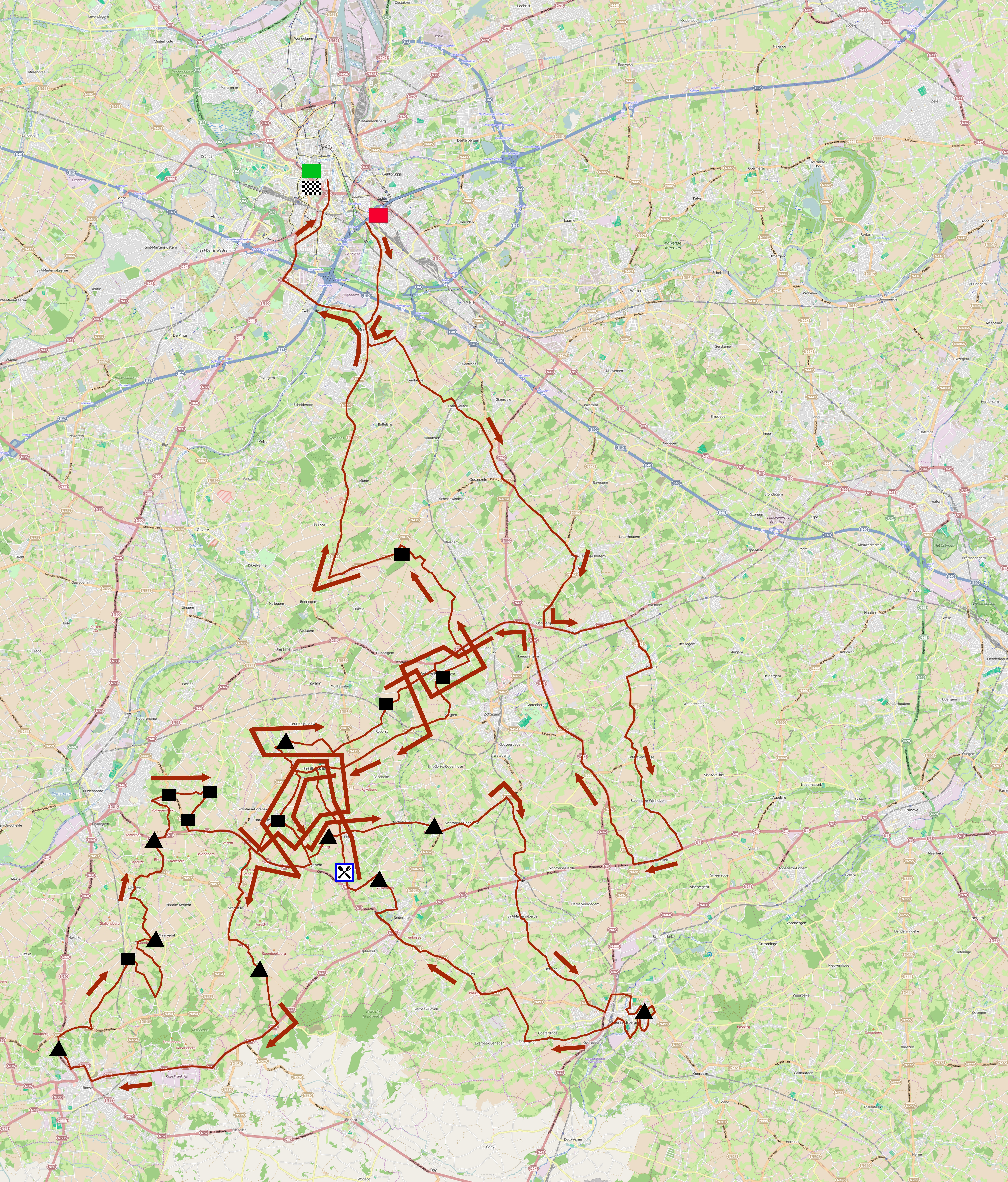 Parcours du Circuit Het Nieuwsblad 2015. This map may be incomplete, and may contain errors. Don't rely solely on it for navigation.